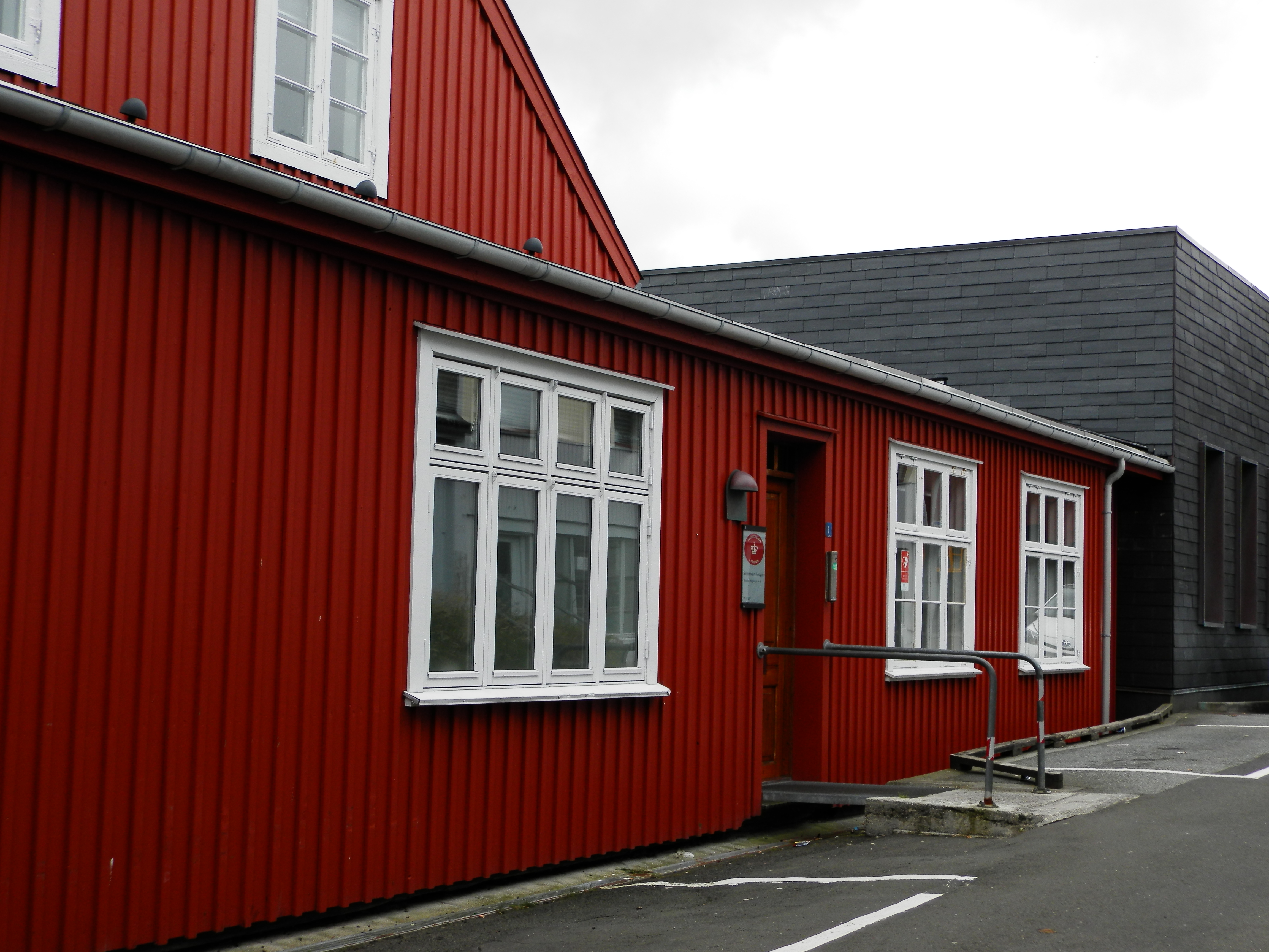 The Court of the Faroe Islands. Sorinskrivarin. C. Pløyensgøta 1, Tórshavn.